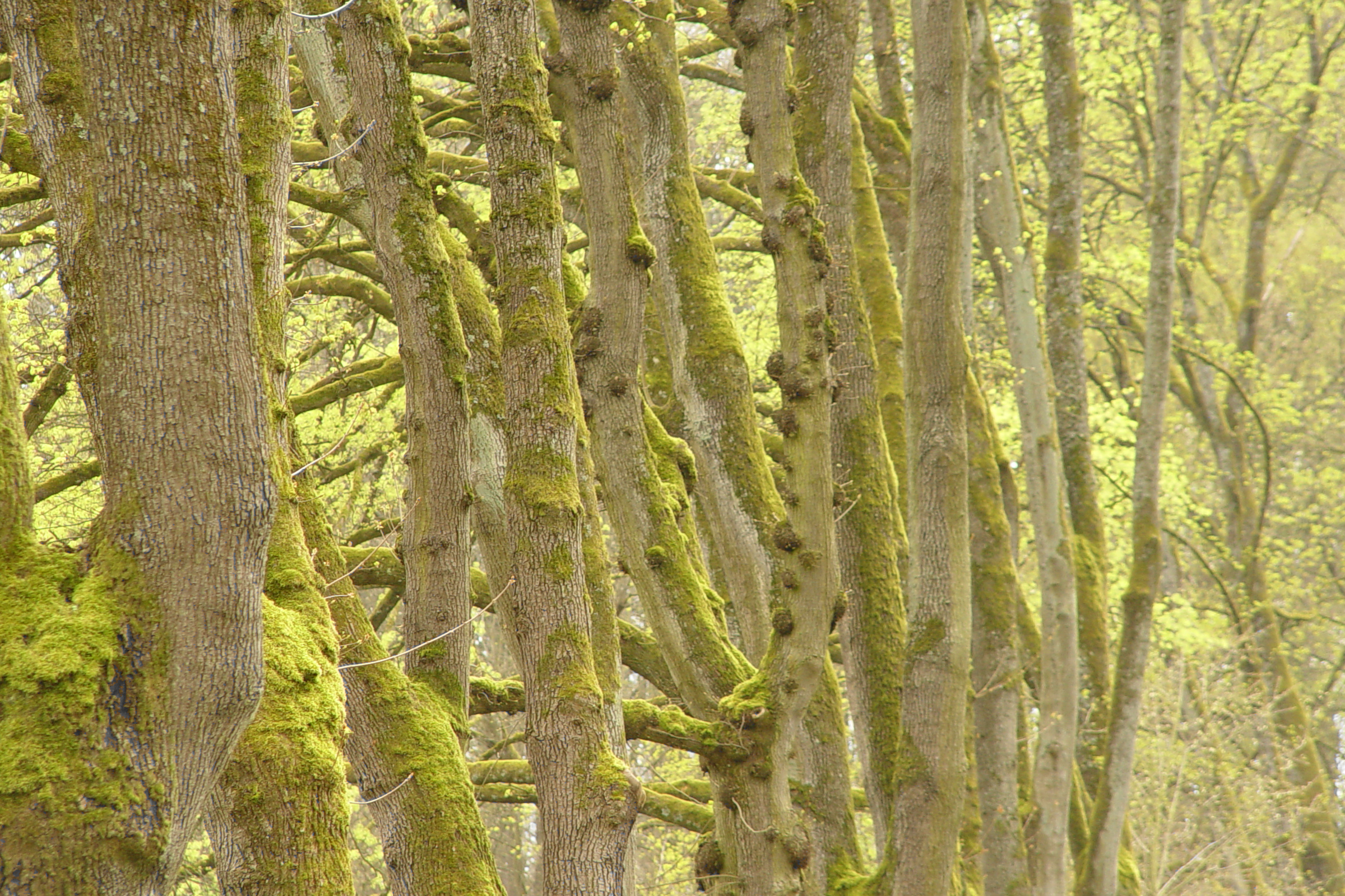 Aschaffenburg, protected landscape element 6 (LB-01420), according to decree by the city of Aschaffenburg from 25.07.1995, modified 16.07.2001, special area of conservation 6021-371 (WDPA 555521299) "Extensivwiesen und Ameisenbläulinge in und um Aschaffenburg", maple alley in Krämersgrund